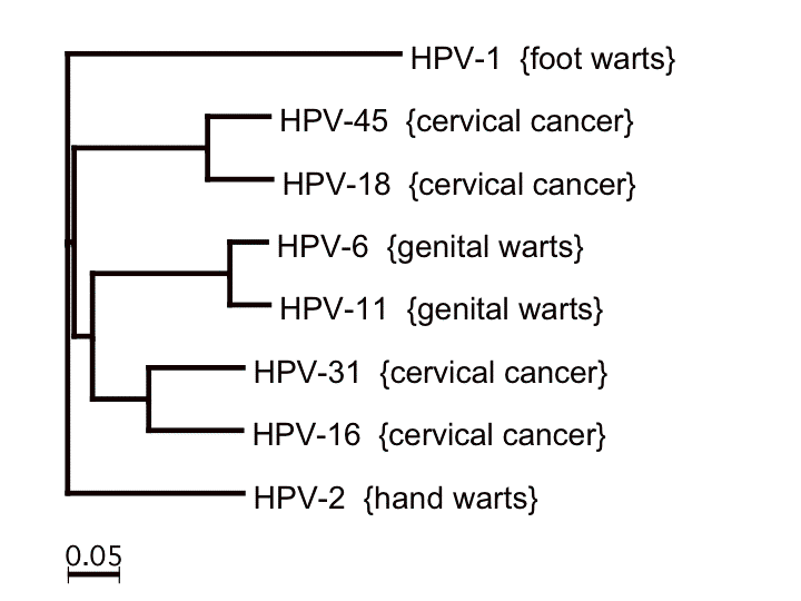 Sequence interrelationships between selected HPV types. Noteworthy disease associations for each type are given in parentheses. [1]. Originally uploaded as HPVtree1.gif on 27 May 2005 by Retroid. This new version is in the PNG format and is exactly the same quality as the original but with a smaller file size.